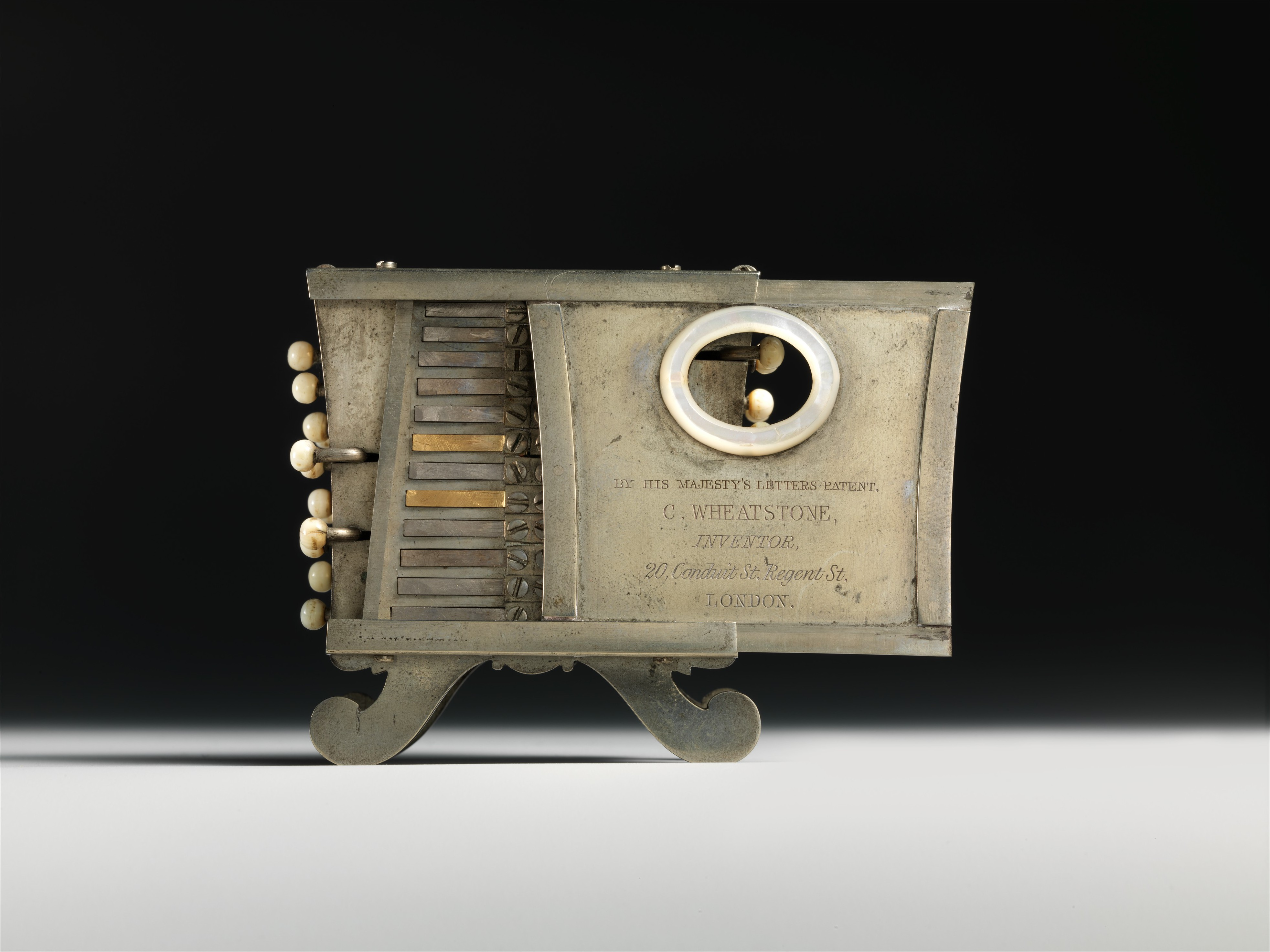 British; Symphonium; Aerophone-Free Reed-mouth organ